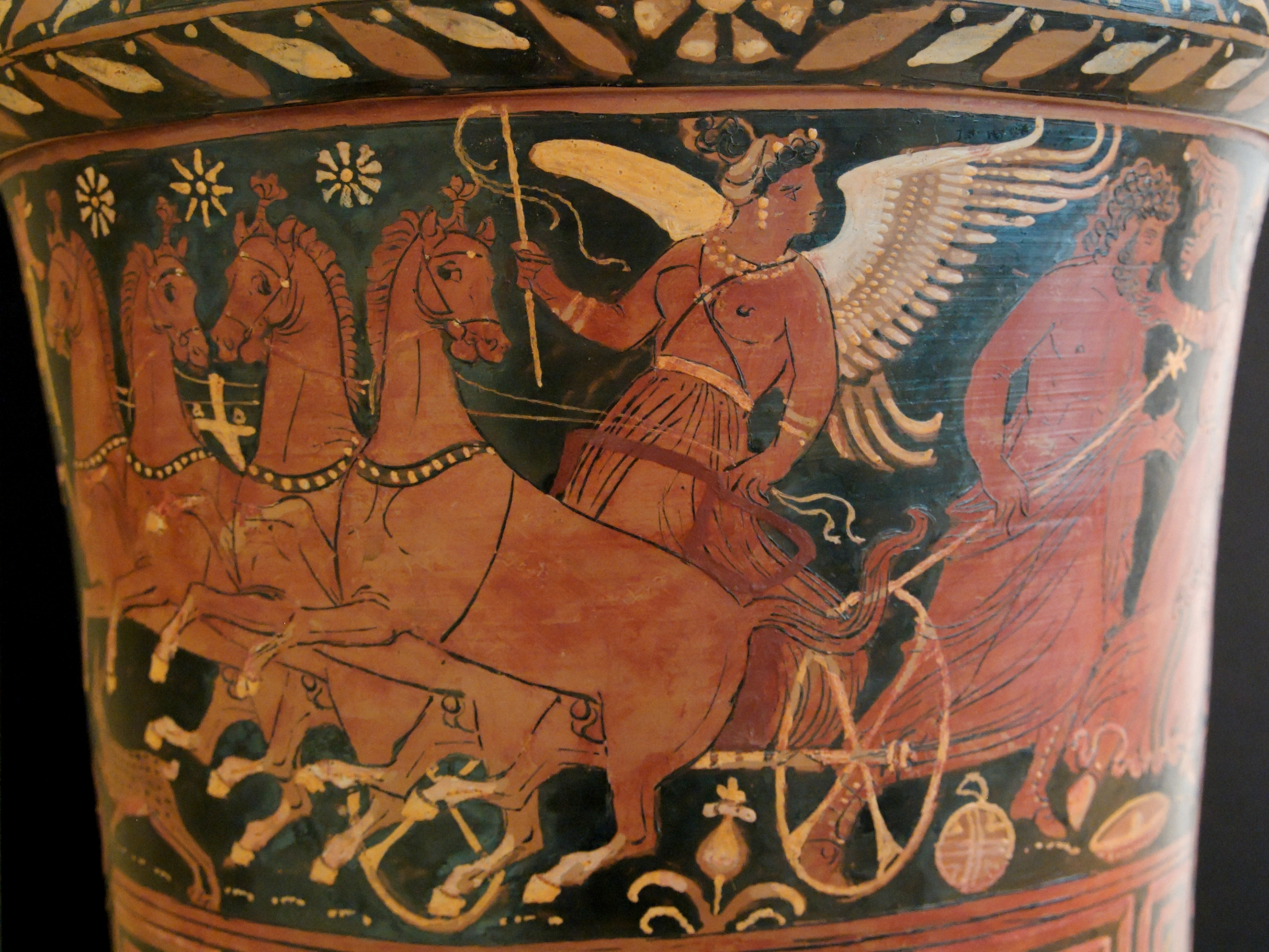 The rape of Persephone: Hades (on the right) leaves his chariot driven by a winged Erinye; Persephone (unseen here) tries to escape. Side B of a loutrophoros made of fired and painted clay in Apulia (Magna Graecia), by the red-figure technique, between 330 and 320 BC approx.